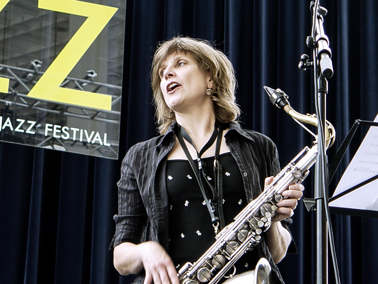 Pernille Bévort at Aarhus Jazz Festival